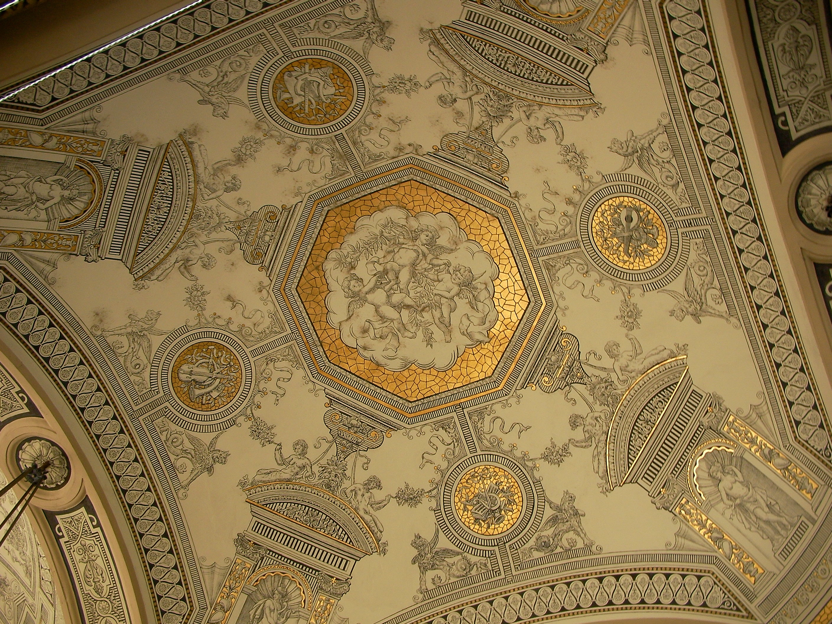 Painting on the ceiling at the Opera house in Budapest.